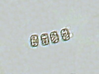 Hydrofront of Dnieper-Bug Liman